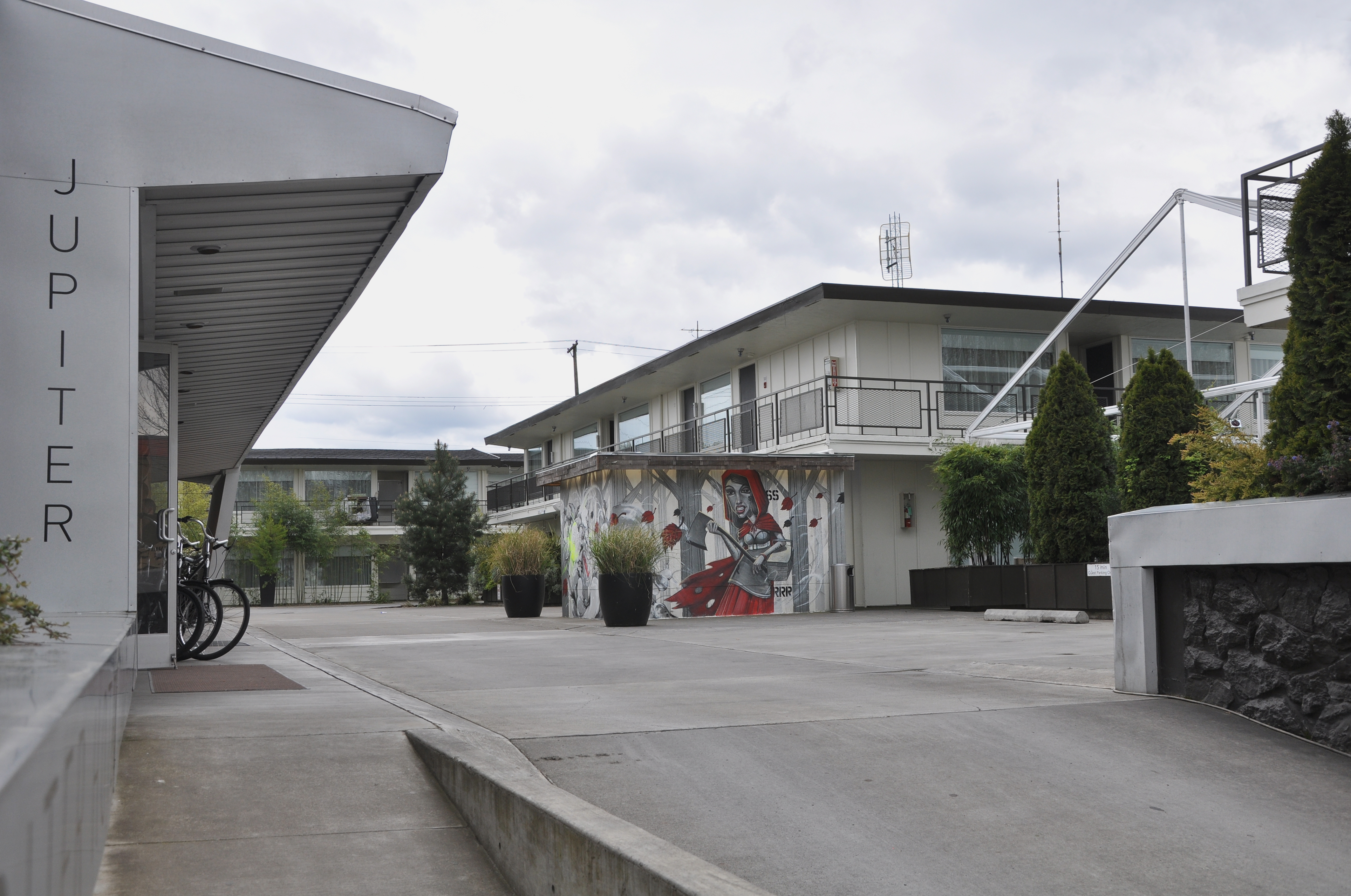 Courtyard of the Jupiter Hotel in Portland in the U.S. state of Oregon